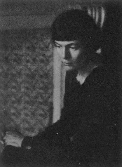 Photographic portrait of American writer Hilda "H.D." Doolittle (1886-1961). From Tendencies in Modern American Poetry by Amy Lowell. New York: The MacMillan Company, 1917, p. 233. Cropped version.